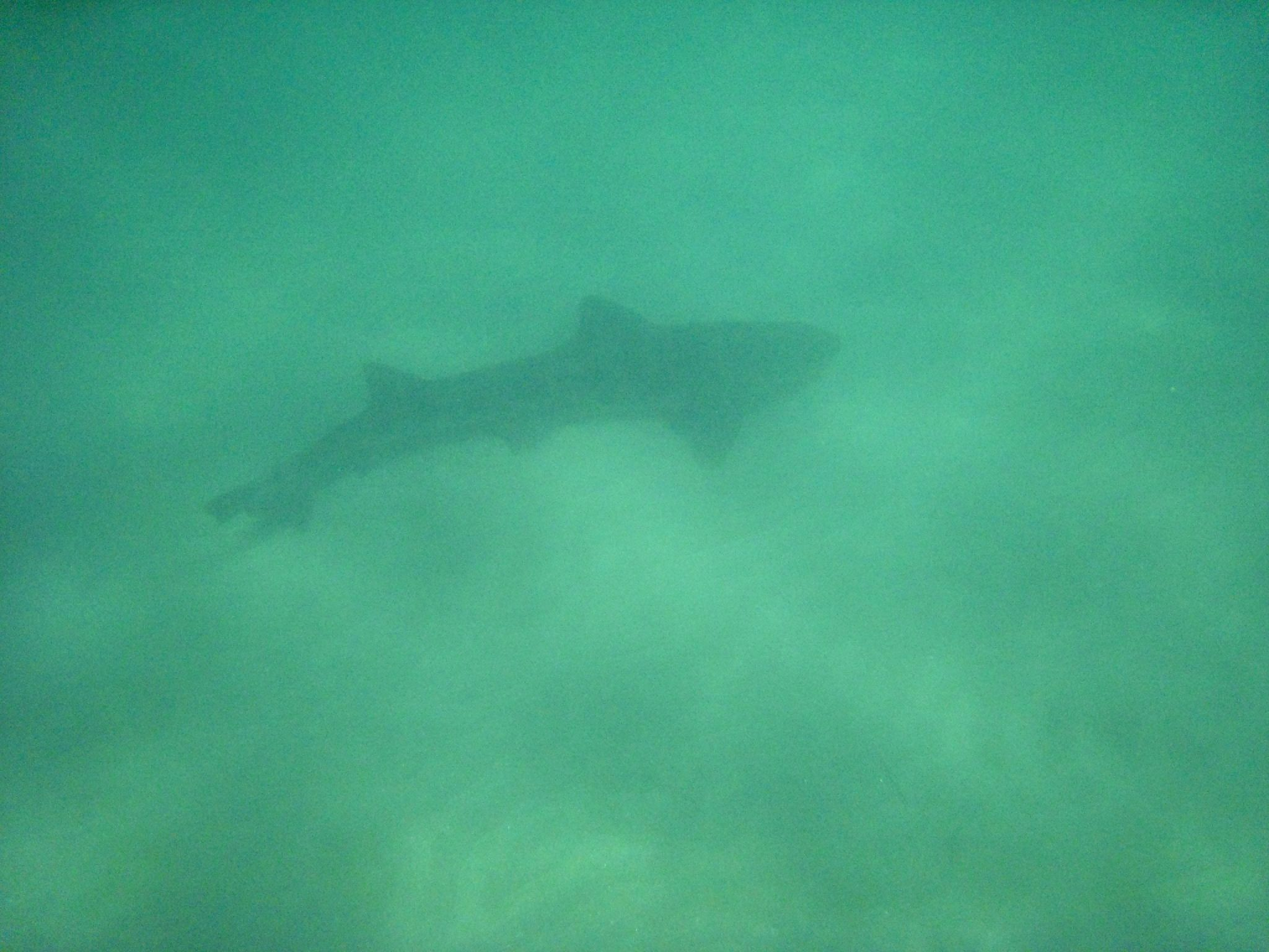 Leopard shark (Triakis semifasciata) off San Diego